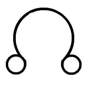 Symbol of Rahu in Hinduism